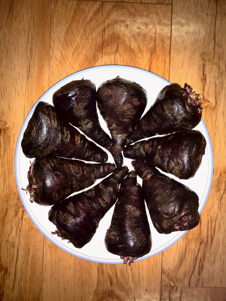 Kanji (drink) 6